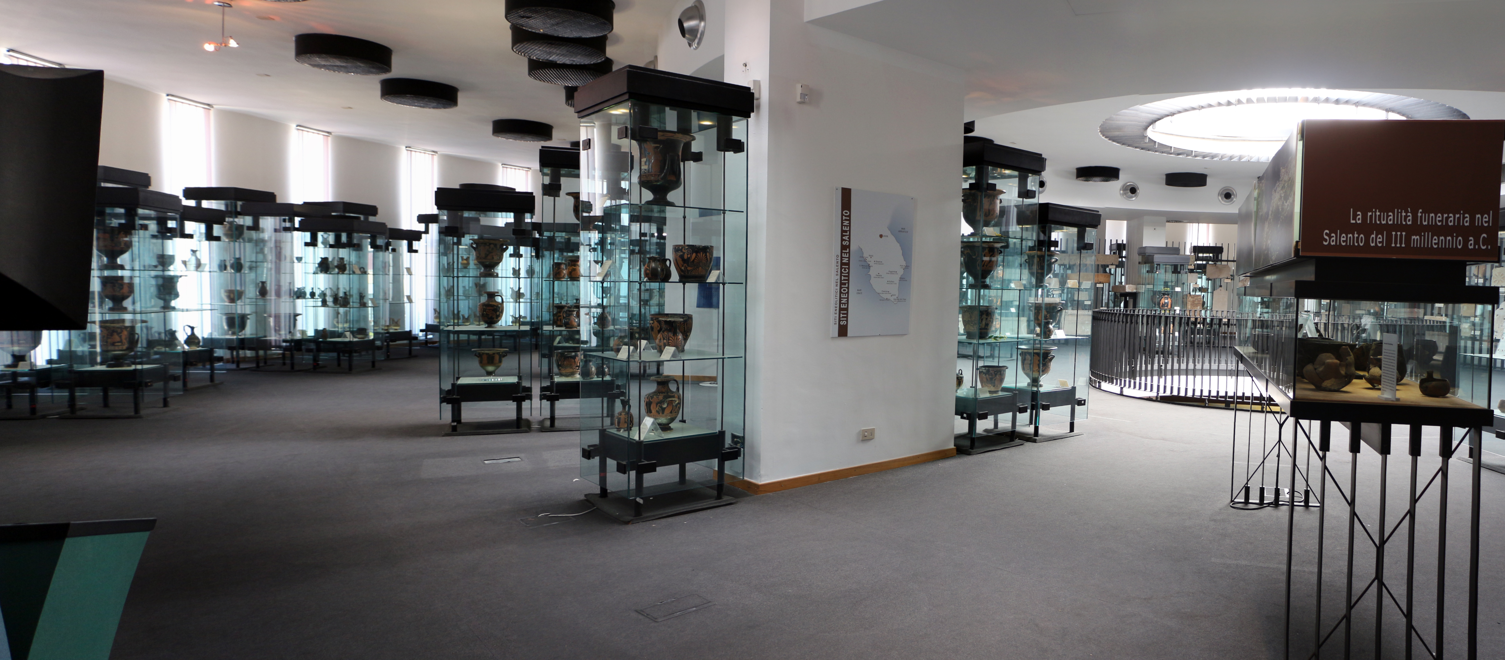 Museo provinciale Sigismondo Castromediano (Lecce)